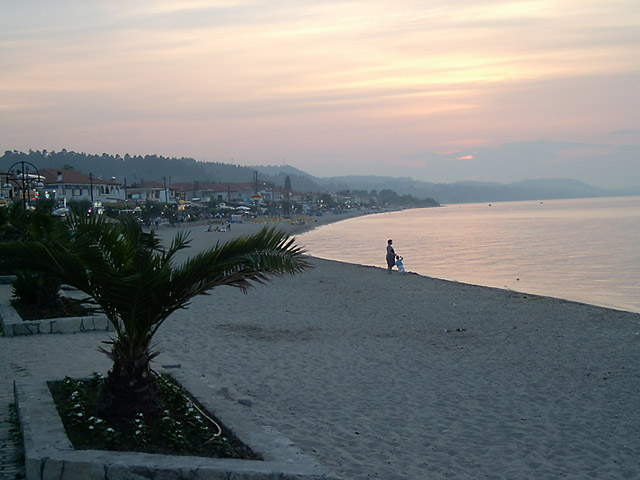 View on the beach and the village of Polychrono, Kassandra, Chalkidiki, Greece.